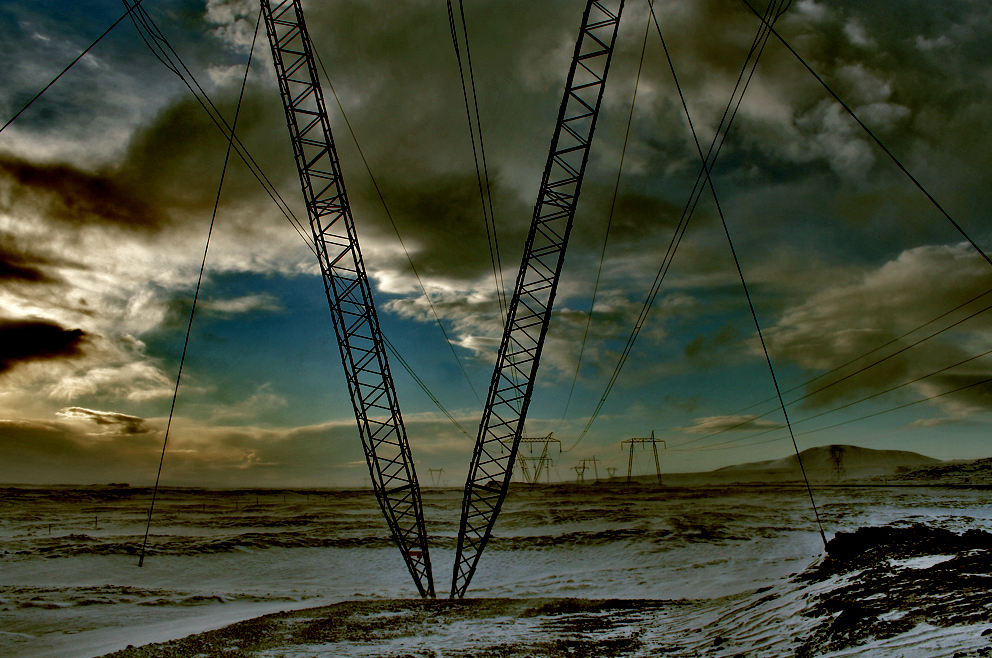 Sky in Iceland